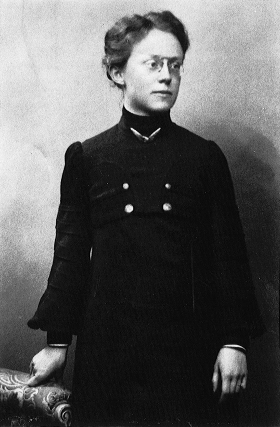 Margarethe Agnes Elise Räntsch (1880–1945), one of the very first female medical doctors in Germany. Her conferral of a doctorate was in 1908 at Julius-Maximilians-Universität in Würzburg, where she was one of the first three female scholars. Between 1917 an 1945 she lived at Wargenau manor near Cranz in Samland, East Prussia. She married the Westfalian farmer Otto Köstlin (1871–1945) and became three children. Their youngest daughter was the pilot Beate Köstlin (1919–2001), who became internationally known as the entrepreneur Beate Uhse after WWII. Margarethe Räntsch and her husband got both killed by Sovjet troups.